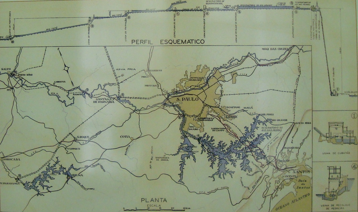 Caminhos do Mar (UHE Henry Bordon); scheme of the plant, photographed on a wall at the powerplant